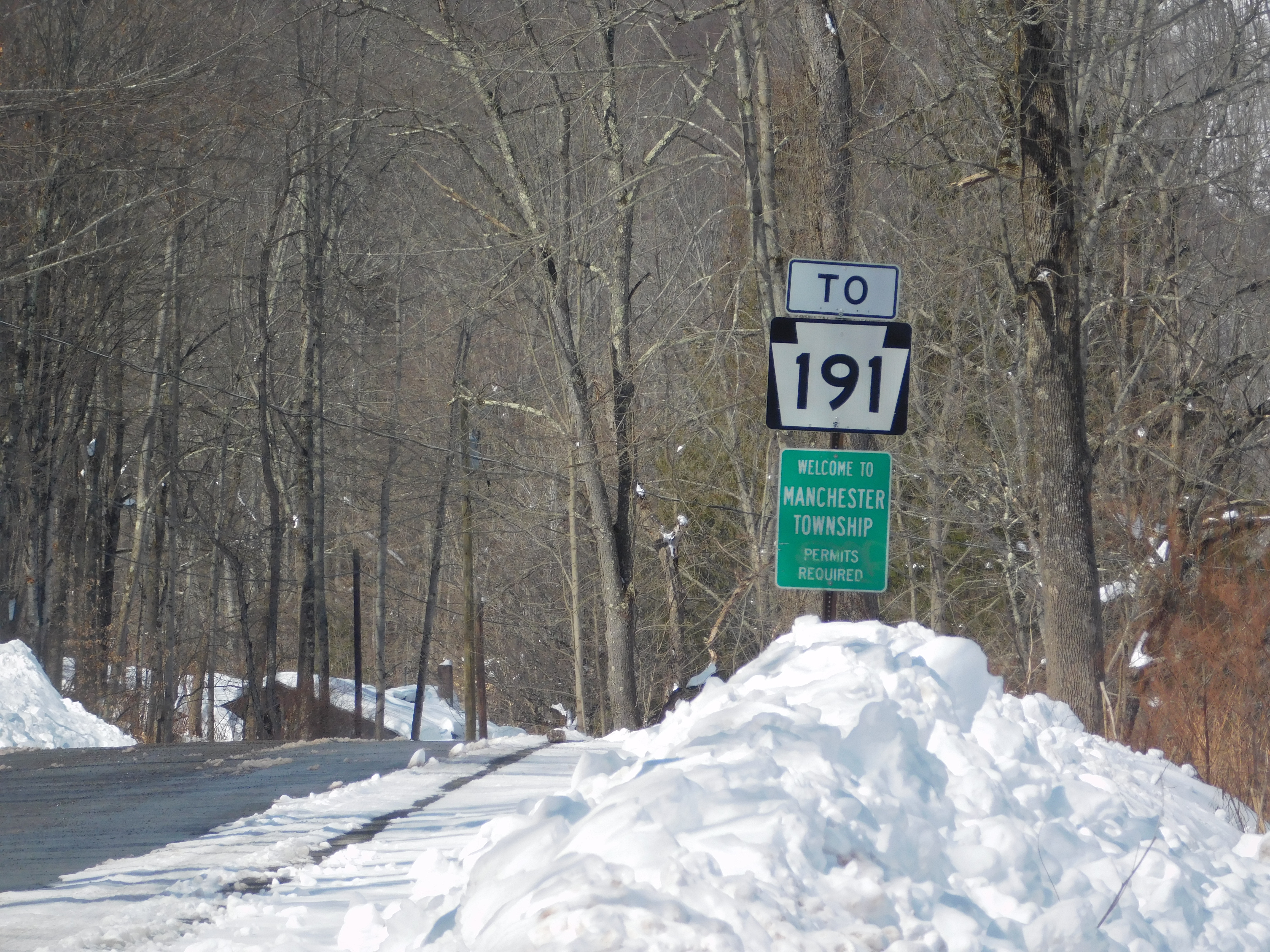 Signage near the Little Equinunk Bridge for Pennsylvania Route 191 and Manchester Township, Wayne County, Pennsylvania.